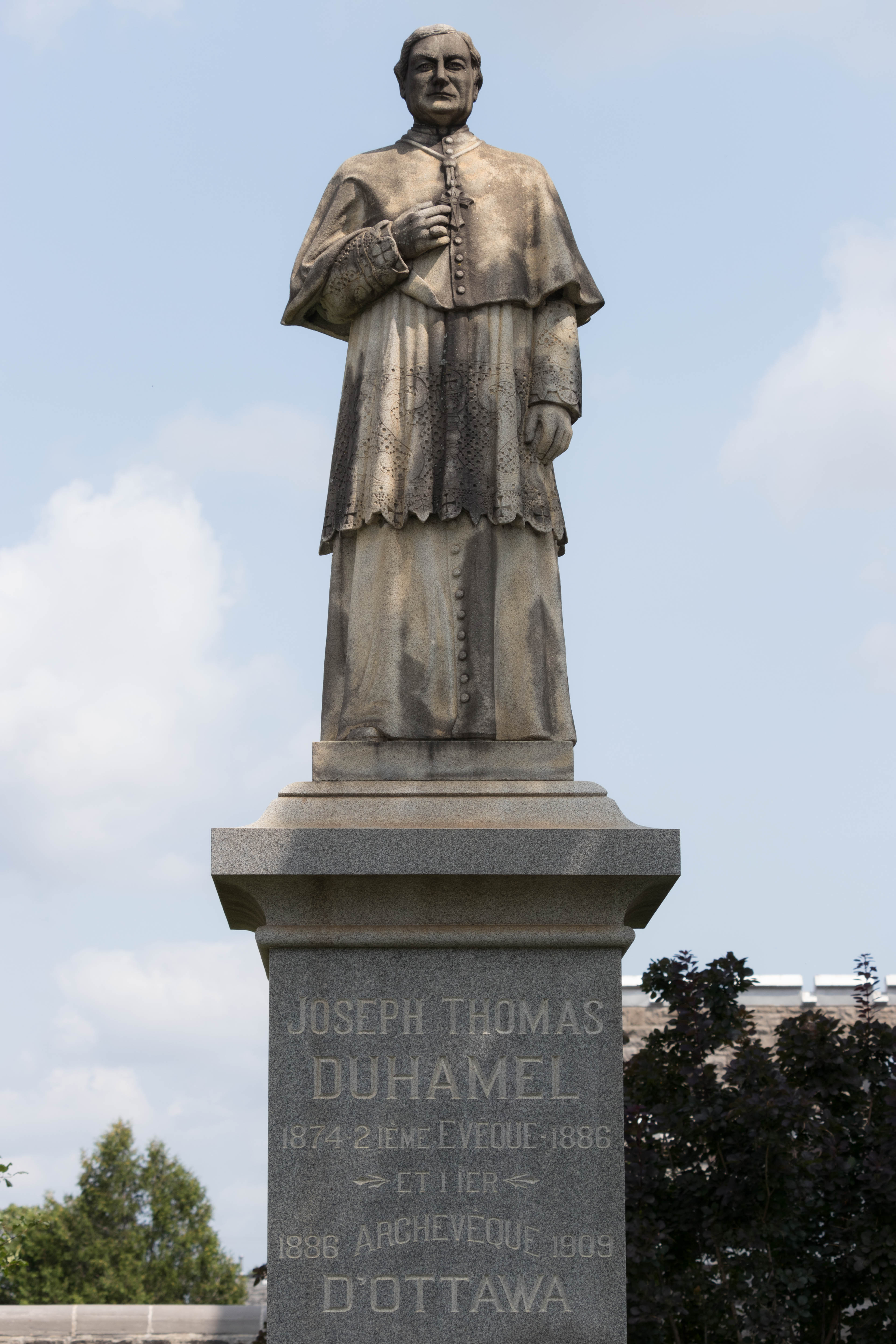 Statue in front of Notre Dame Basilica Ottawa, Ontario